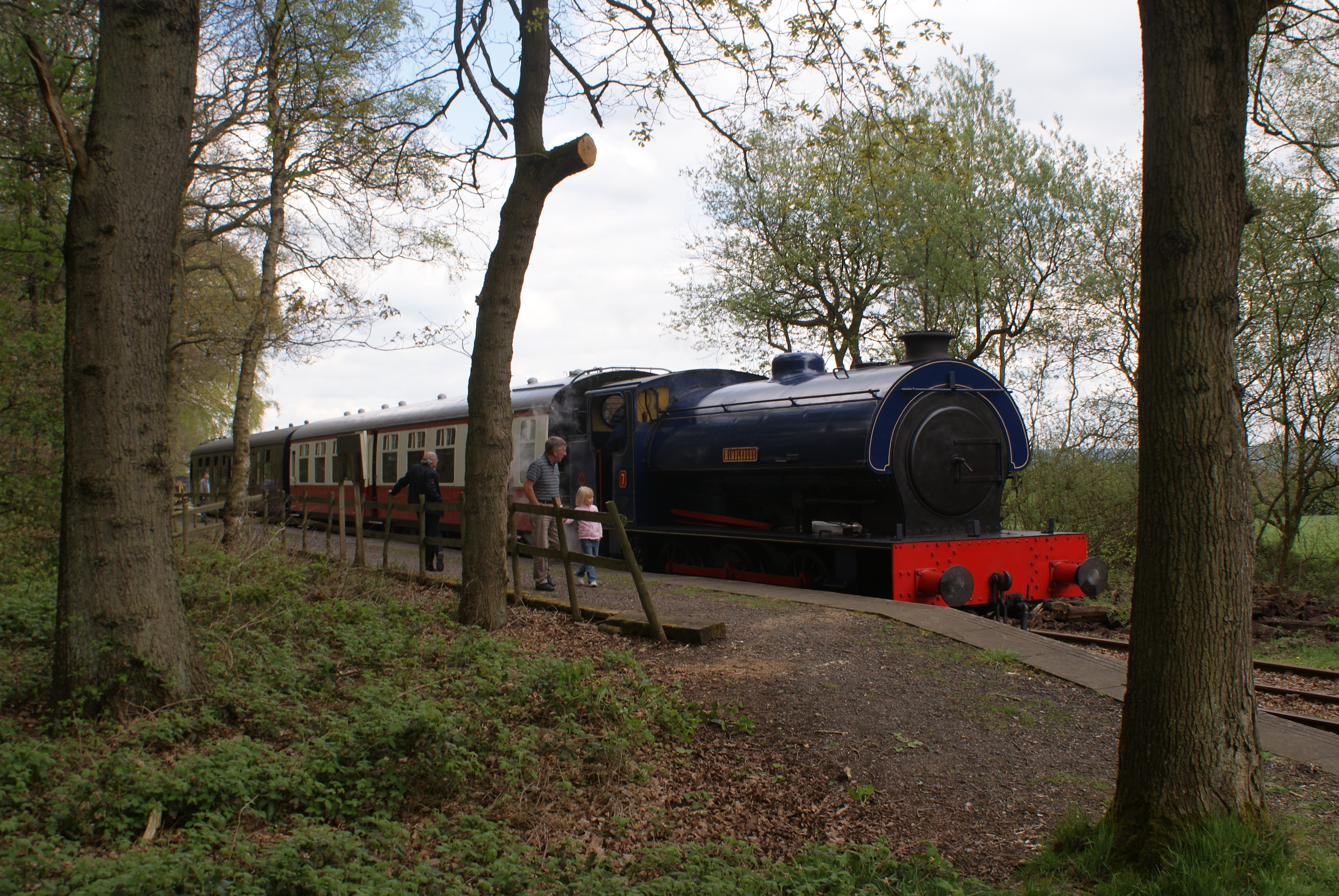 Wimblebury, a Hunslet Austerity 0-6-0ST No 3839 built in 1956, seen working a train at Dilhorn Park on the Foxfield Light Railway, Staffordshire, England